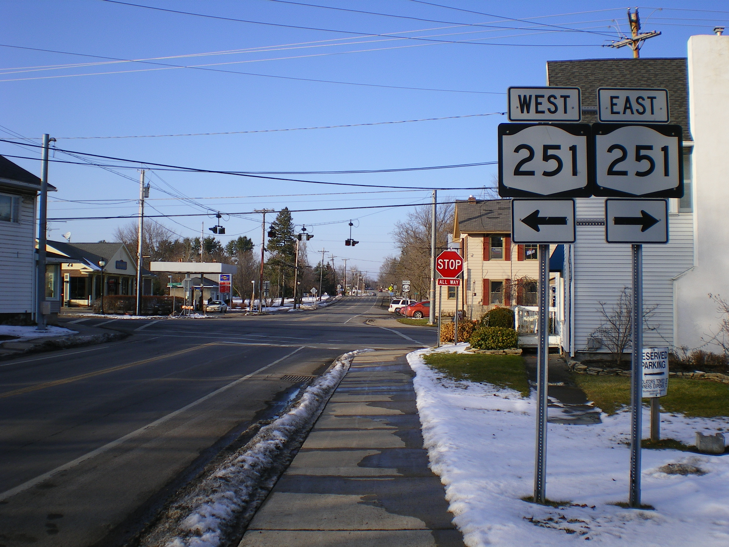 The junction of New York State Route 64 and New York State Route 251 in the hamlet of Mendon, as seen from NY 64 northbound.